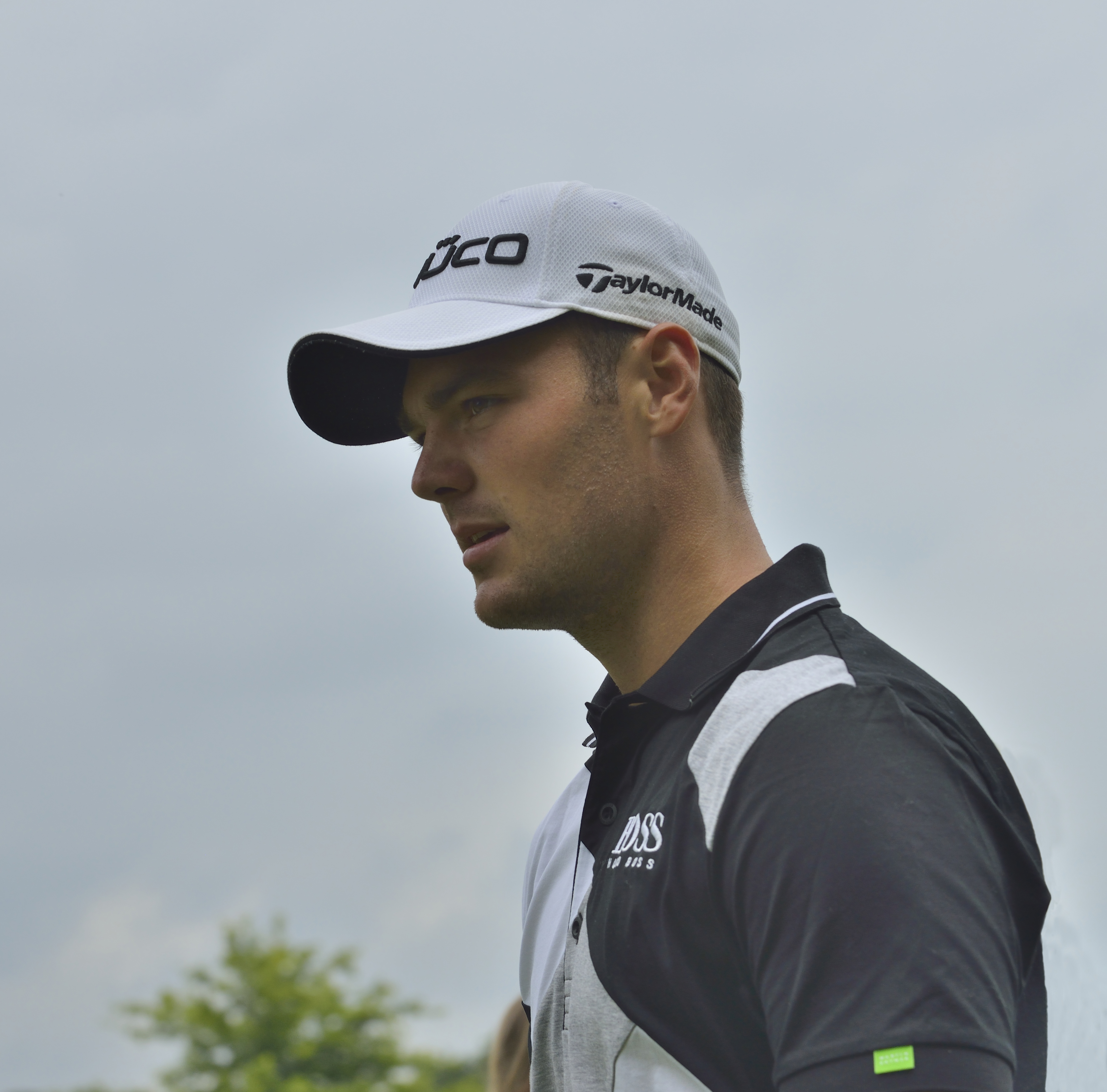 Martin Kaymer at Schüco Open 2012, Golfclub Gut Kaden